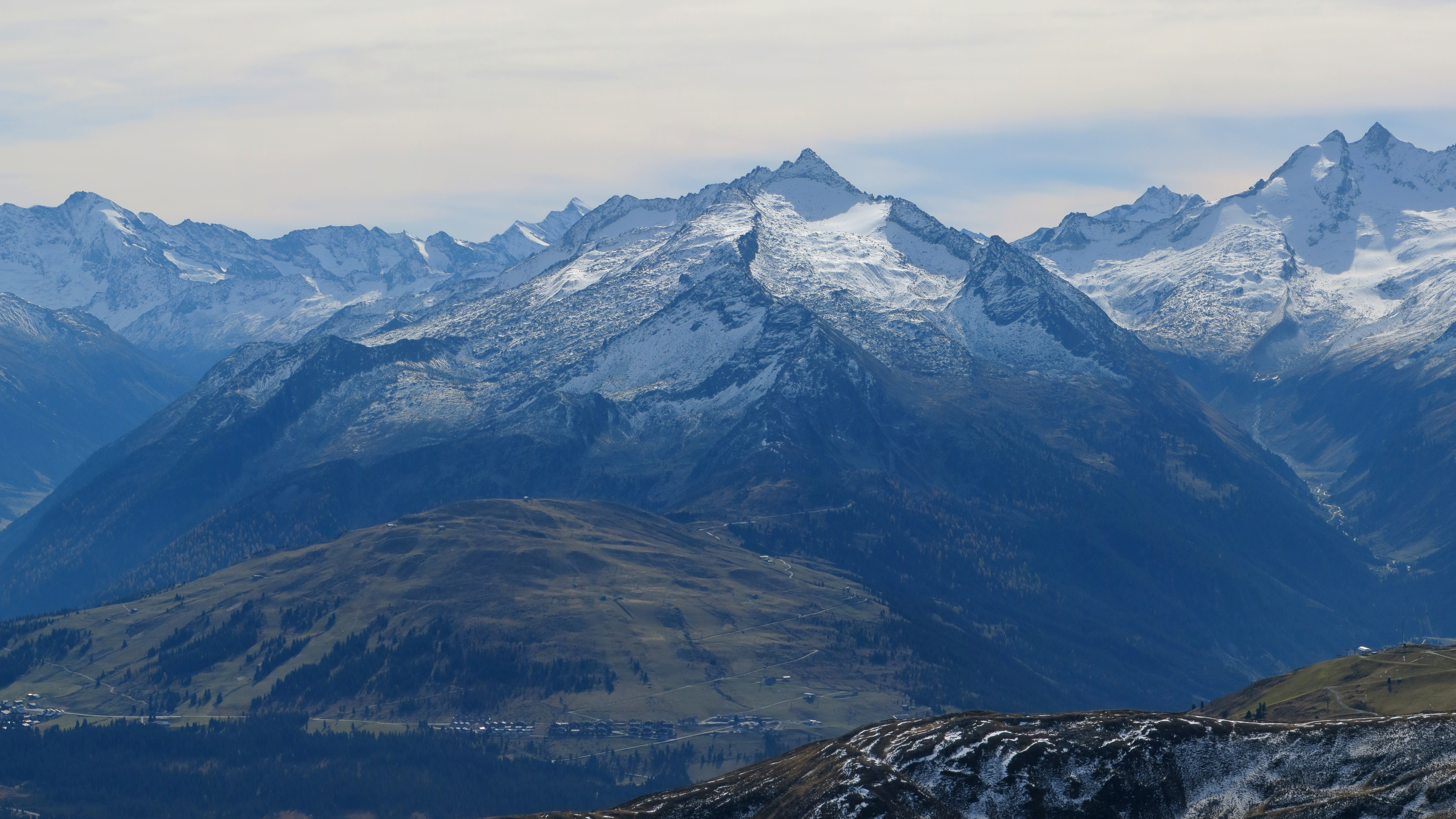 Wildkarspitze in the Zillertal Alps, seen from north (Salzachgeier)